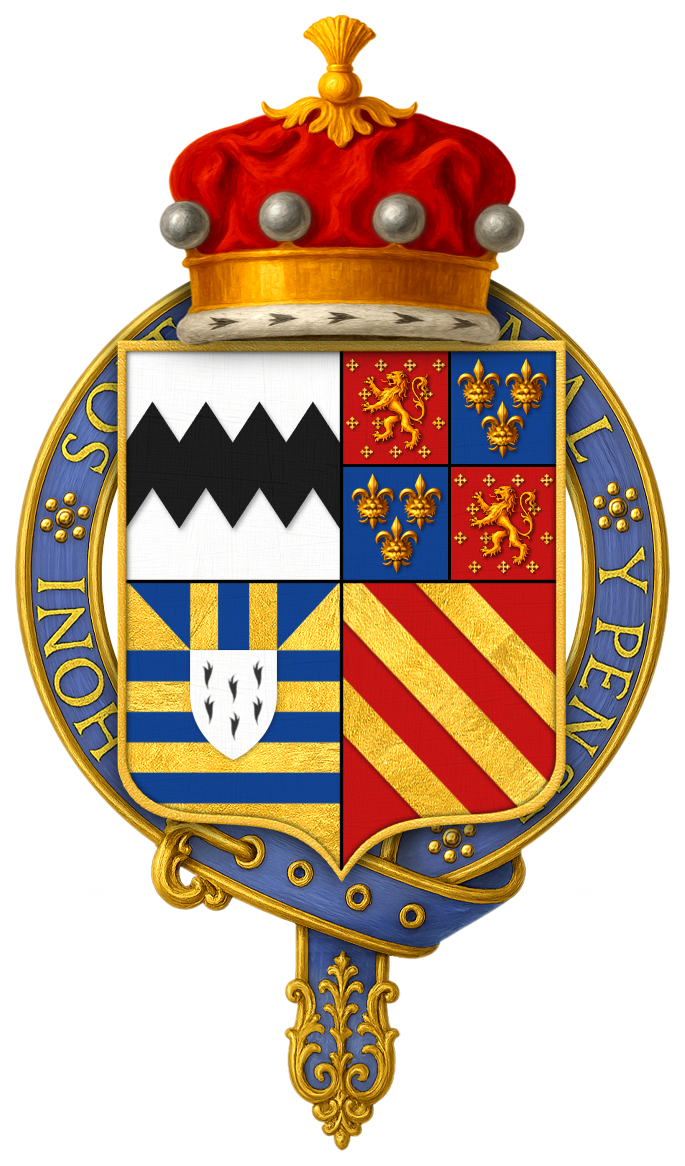 Coat of arms of Sir Thomas West, 9th Baron De La Warr, KB, KG. Quarterly of 4: 1 & 4: Argent, a fess dancetée sable (West) 2: Azure, three leopard's heads reversed jessant-de-lys or (Cantilupe) (here shown erect) 3: Gules crusily, a lion rampant argent (la Warr) (Source: Montague-Smith, P.W. (ed.), Debrett's Peerage, Baronetage, Knightage and Companionage, Kelly's Directories Ltd, Kingston-upon-Thames, 1968, p.334)